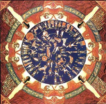 This image depict a zodiac of ancient Egypt in the temple of Dendera. It came from: No copyrights or links to site with the same picture have been seen.